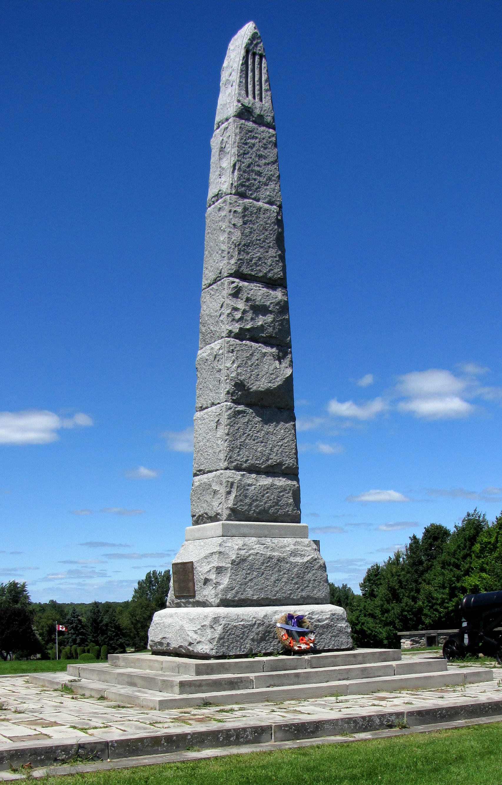 Memorial to Battle of Crysler's Farm, erected 1895, near Upper Canada Village, Ontario, Canada